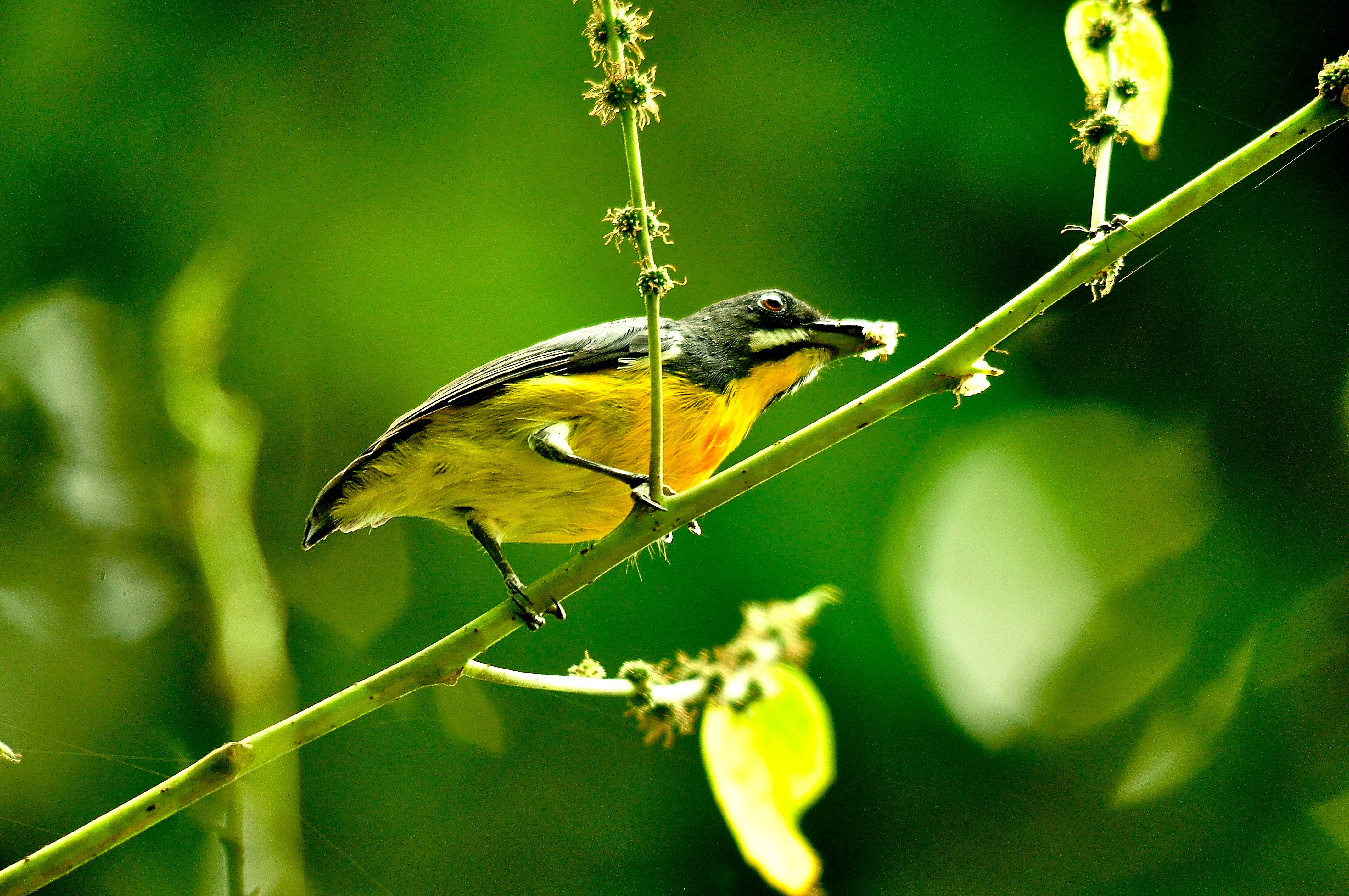 endemic to Palawan, this shot was taken in Sitio Apan, Bgy. Siciscan, Puerto Princesa City, Palawan, Philippines